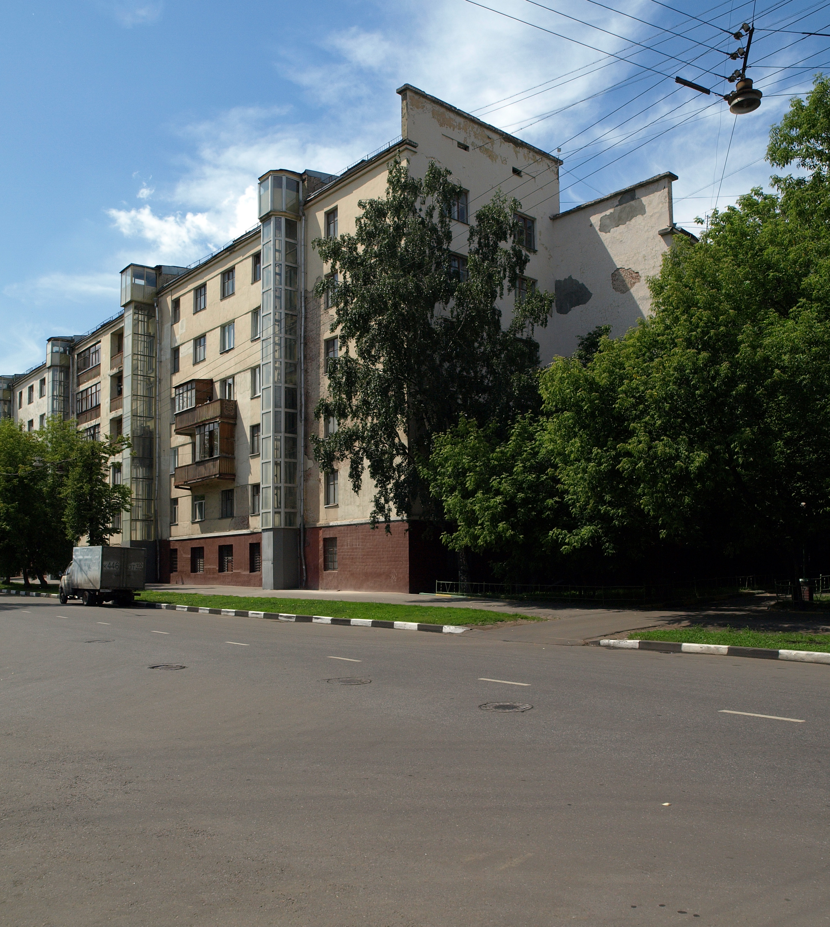 1920s housing in Moscow (Lesnoryadsky Lane, view from the third ring overpass).